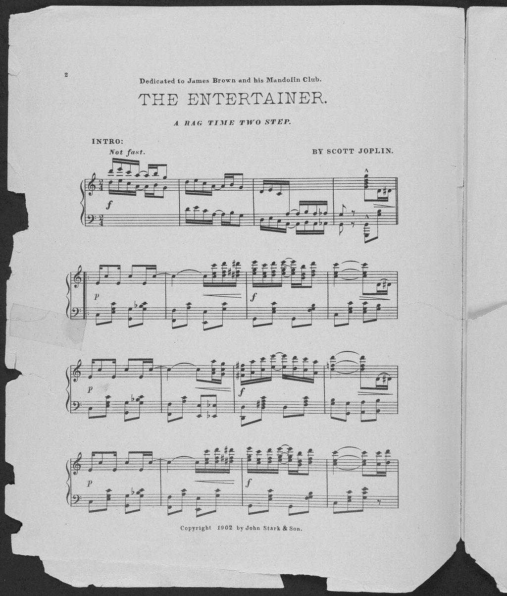 "The Entertainer" (sheet music) Page 2 of 5